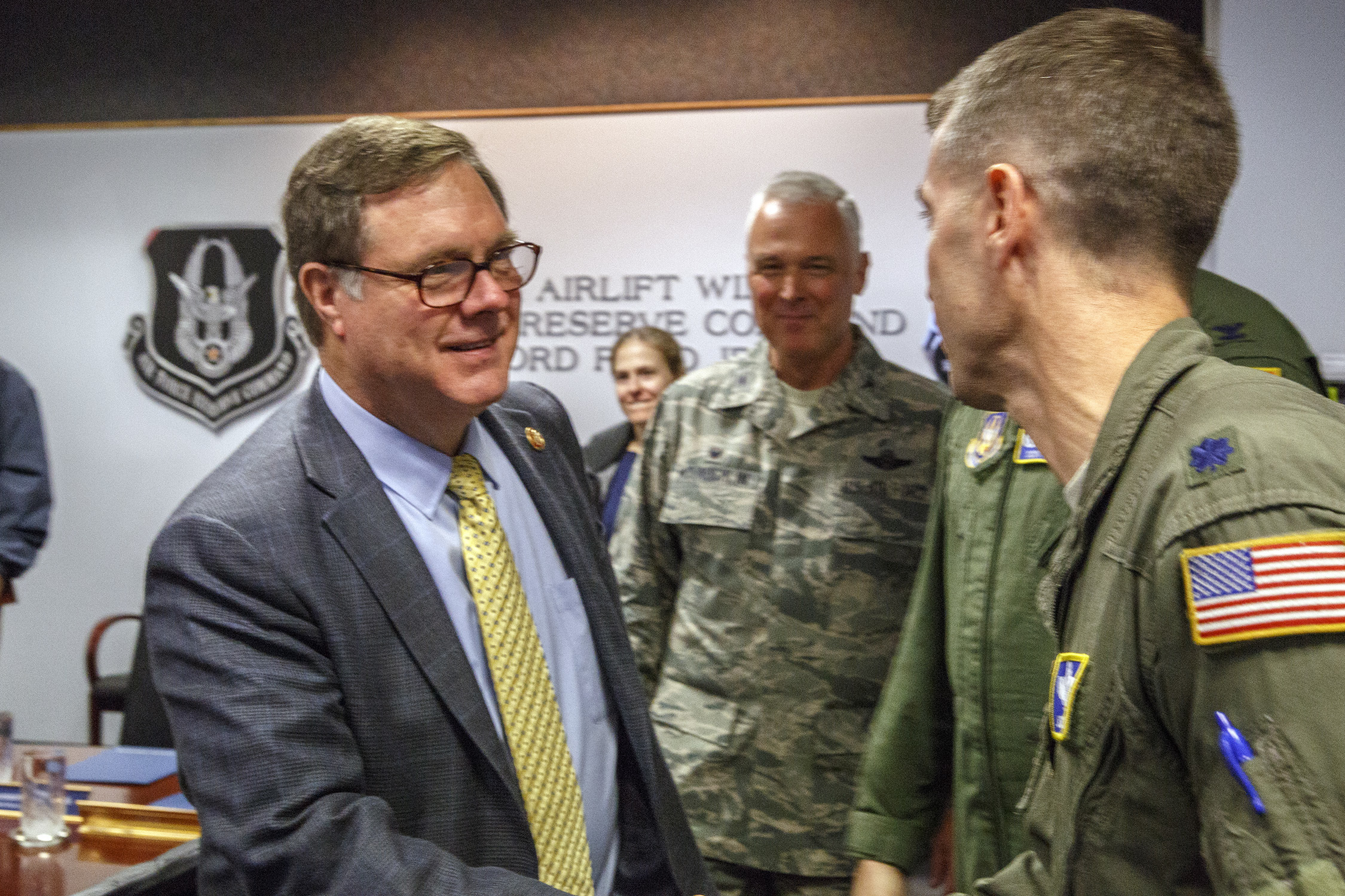 U.S. Rep. Denny Heck of Washington's 10th District is greeted by Lt. Col. Jason Allen, a 97th Airlift Squadron pilot, and first officer with Alaska Airlines, during a scheduled visit to the 446th Airlift Wing at McChord Field, Nov. 5. Heck's purpose for visiting the Reserve unit was to get an update on the status of the wing. Various 446th members briefed the Congressman on medical service missions, and Operation Deep Freeze. (U.S. Air Force Reserve photo by Jake Chappelle)